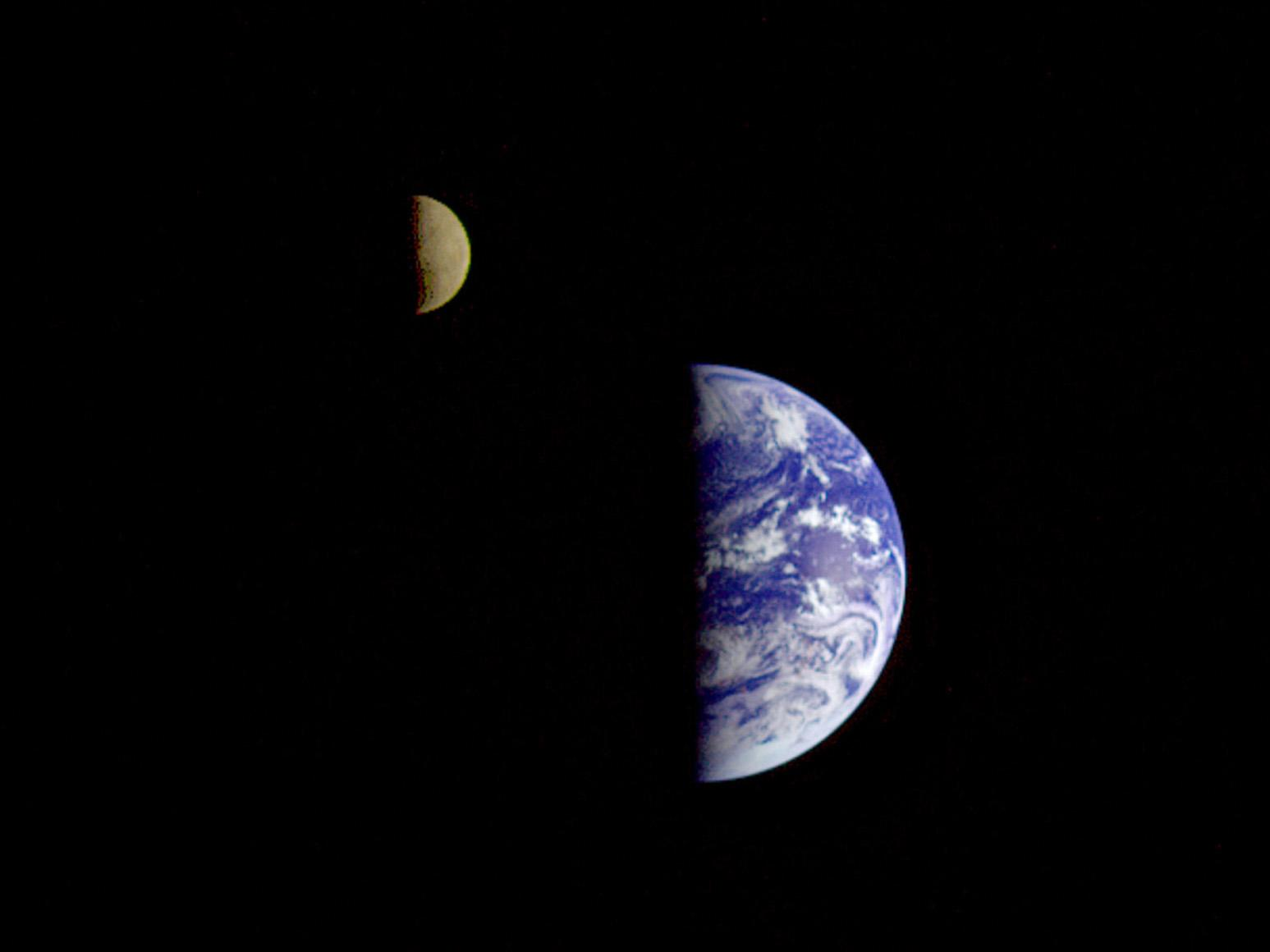 Earth and Moon This picture of the Earth and Moon in a single frame was taken by the Galileo spacecraft from about 3.9 million miles away. Antarctica is visible through clouds (bottom). The Moon's far side is seen; the shadowy indentation in the dawn terminator is the south pole Aitken Basin, one of the largest and oldest lunar impact features.